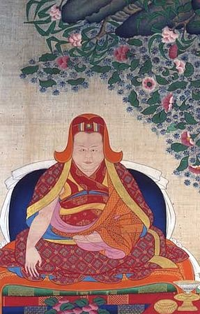 Extraced from